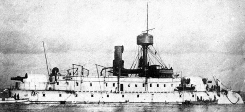 Freench coastal defence ship Tonnant, launched in 1880.